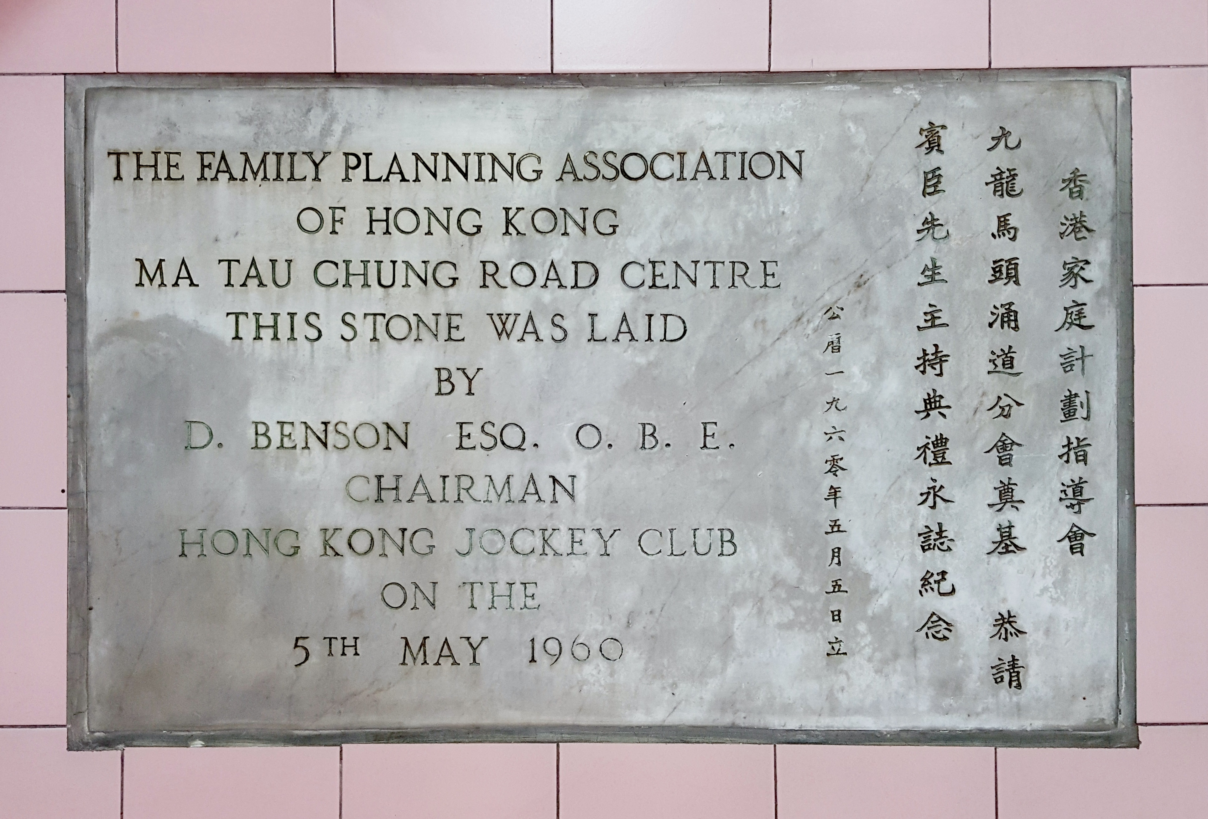 Foundation stone of the Ma Tau Chung Road Centre of the Family Planning Association of Hong Kong as laid by Mr Donovan Benson, Esq., O.B.E. on 5th May 1960. 中文（香港）: 香港家庭計劃指導會九龍馬頭涌道分會奠基石，由賓臣先生，O.B.E.於1960年5月5日主持奠基